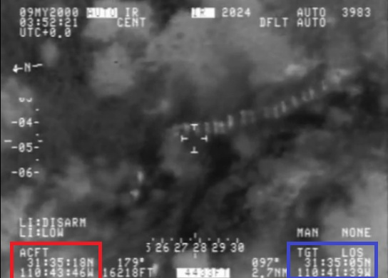 Screenshot of a Predator UAV on border patrol showing the aircraft's GPS position in red and the target's GPS position in blue.